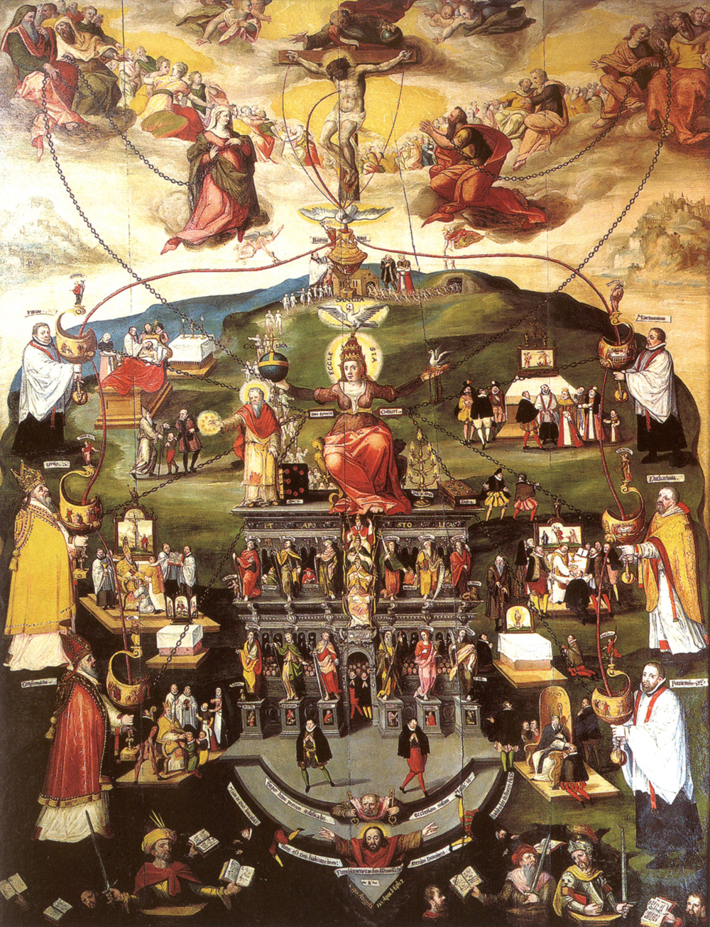 Hildesheim Cathedral, Wrisberg epitaph, central panel: Distribution of the divine graces by means of the church and the sacraments